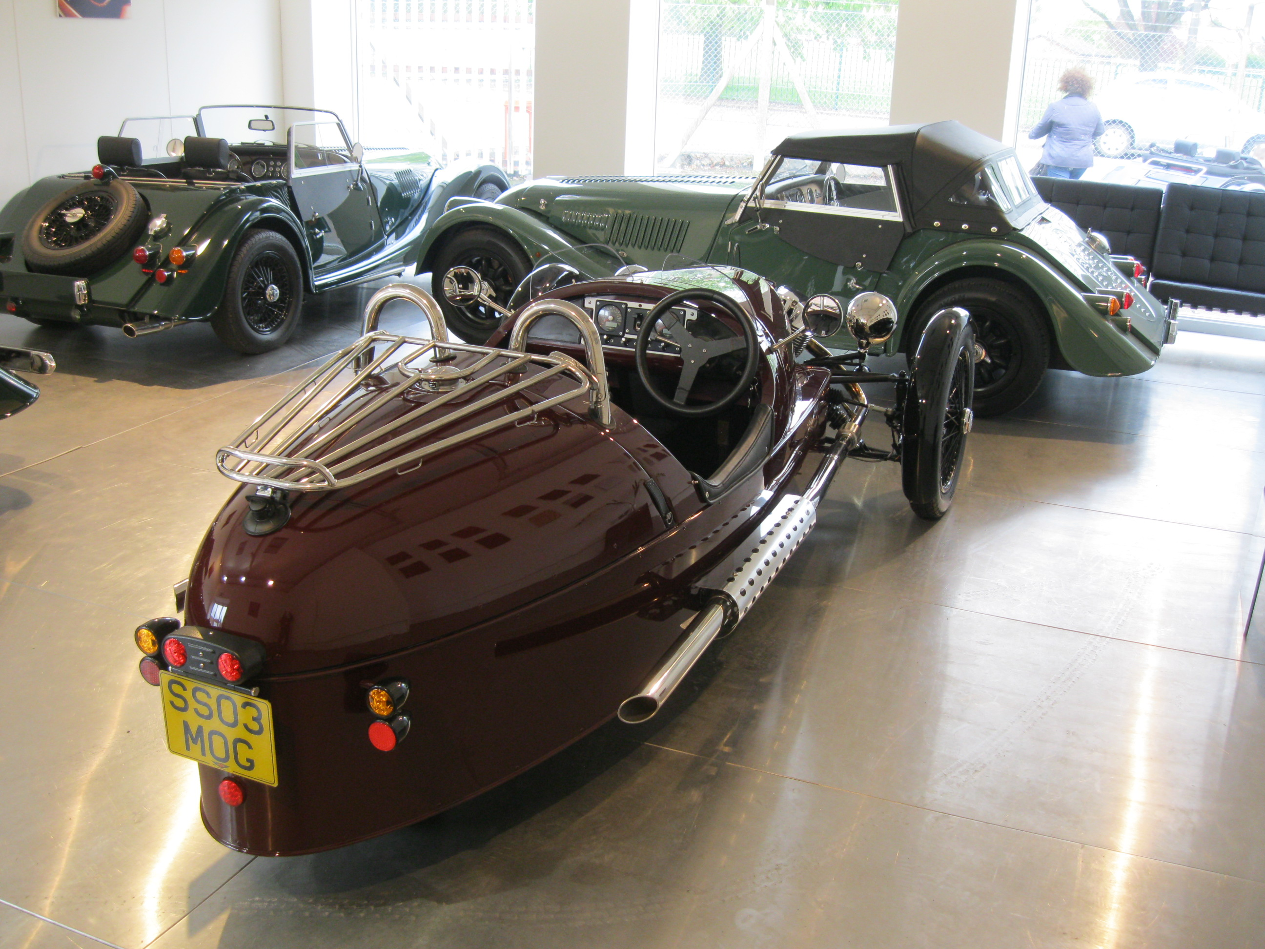 2012 Morgan 4/4 & 3 wheeler